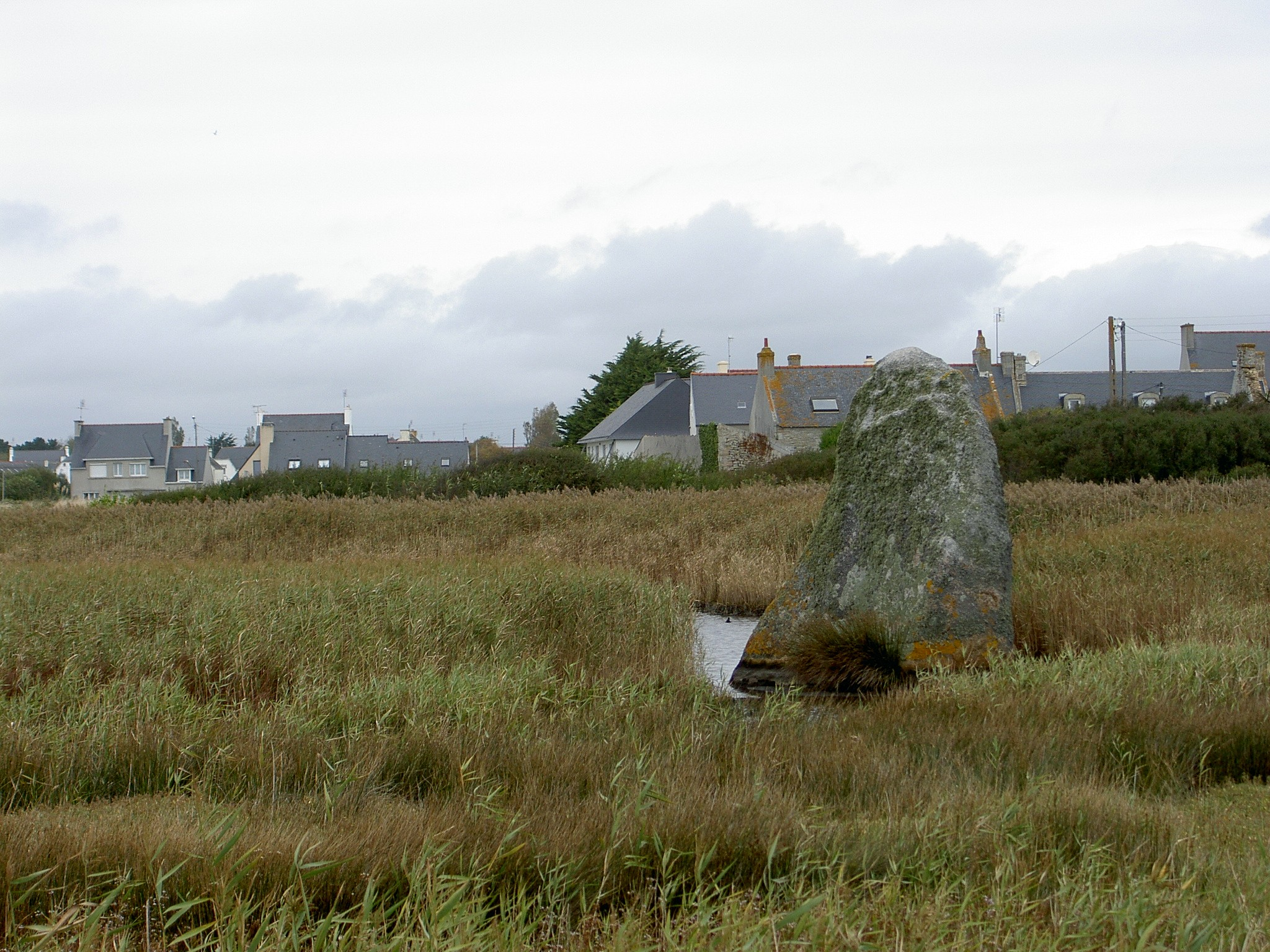 Menhir of Léhan, in a salt marsh (Treffiagat, France).